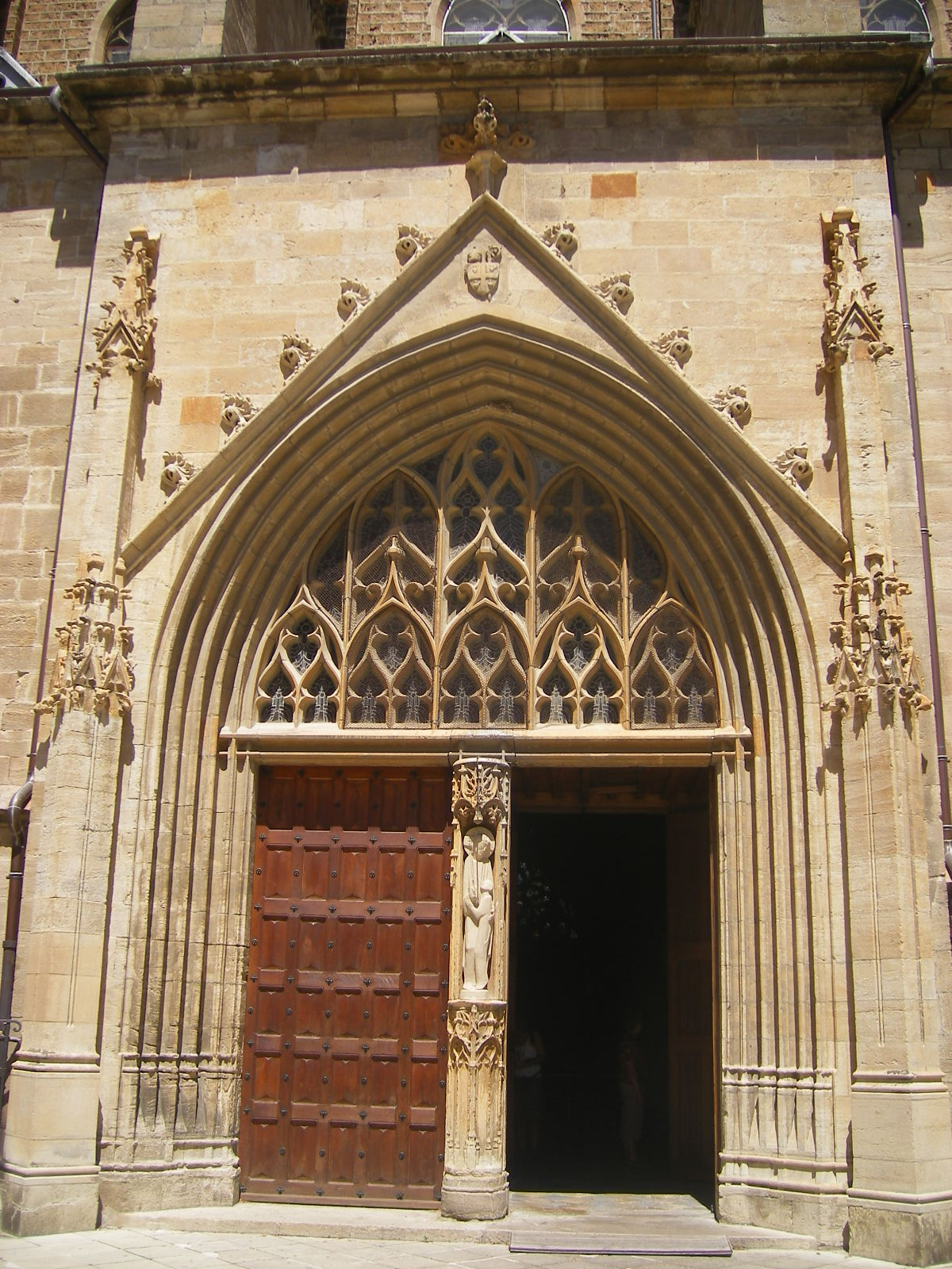 Mende, Cathedral